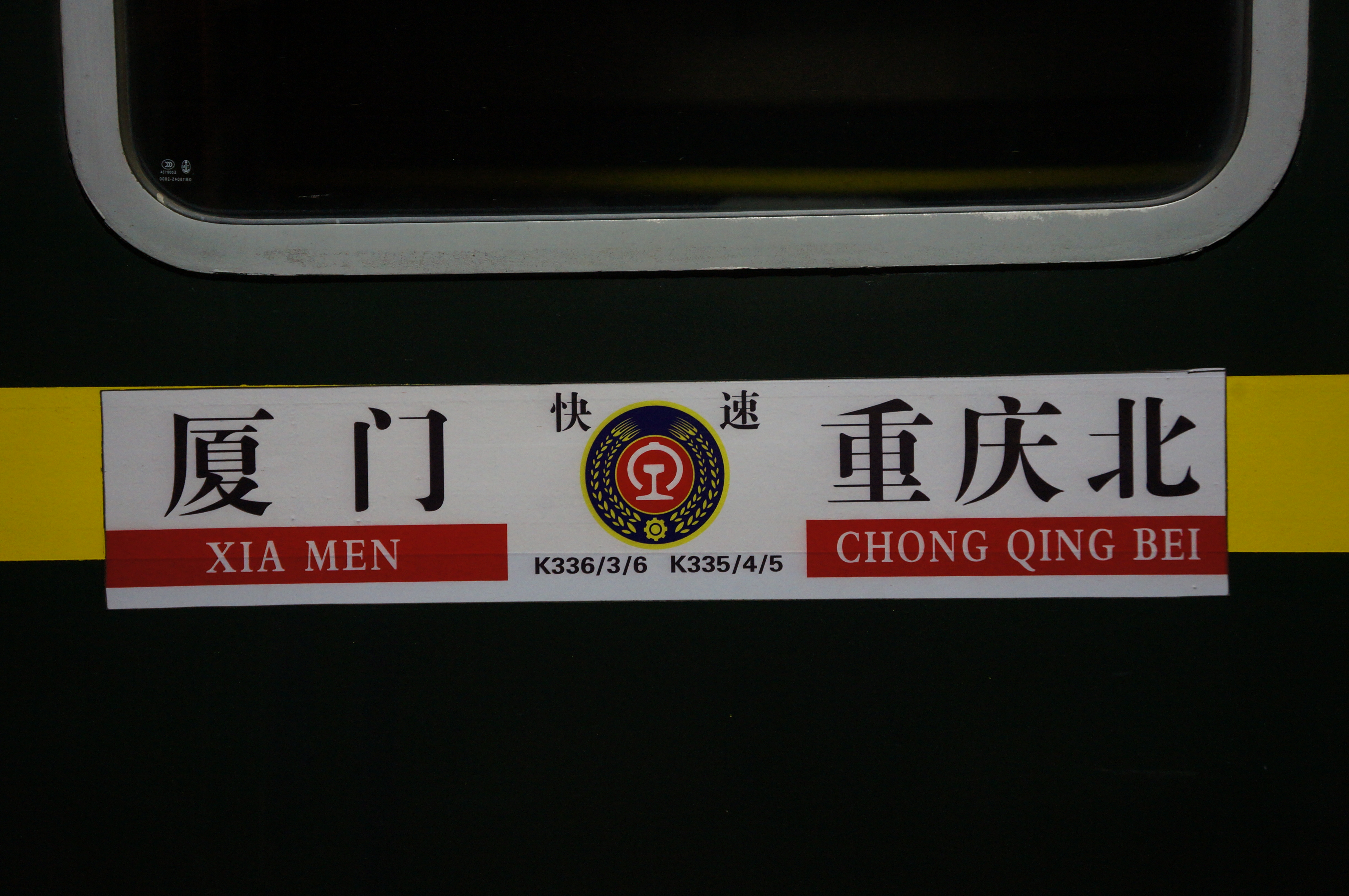 Now K404/405、K403/406